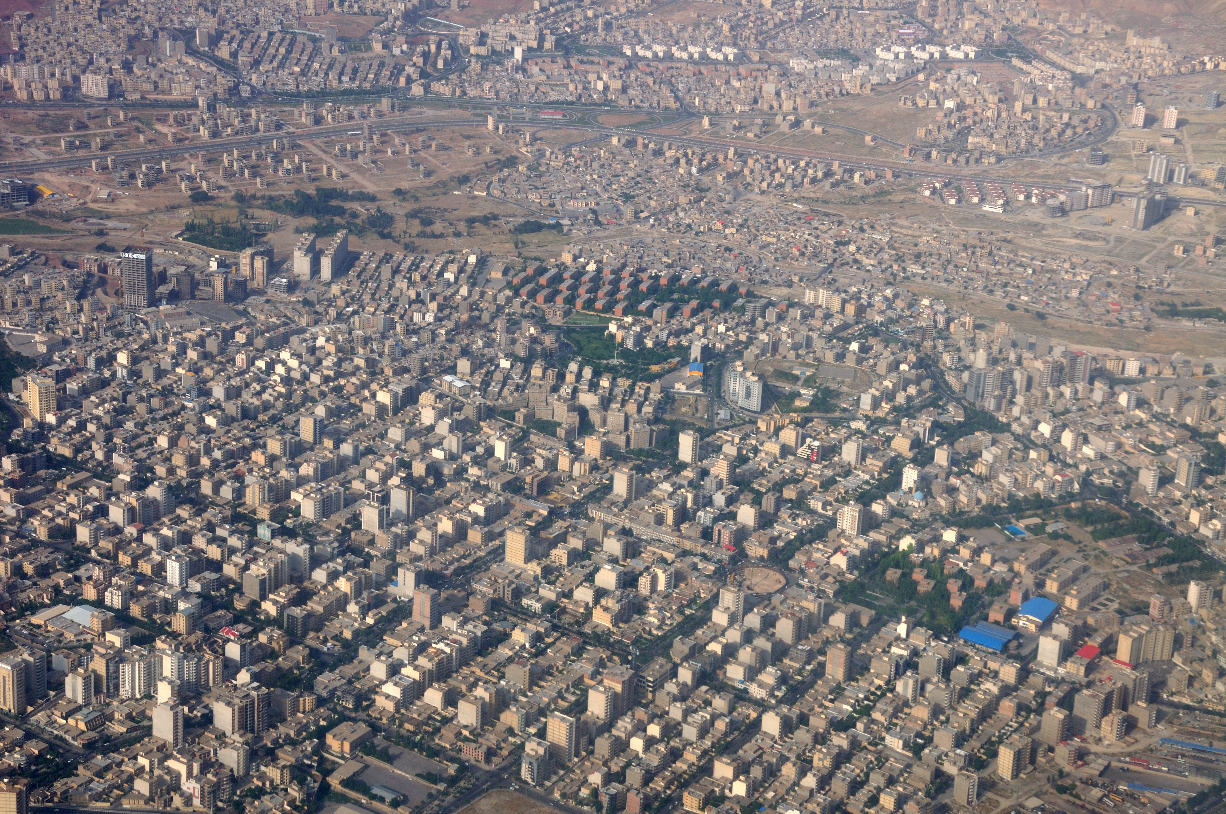 Iran, aerial view of Tabriz